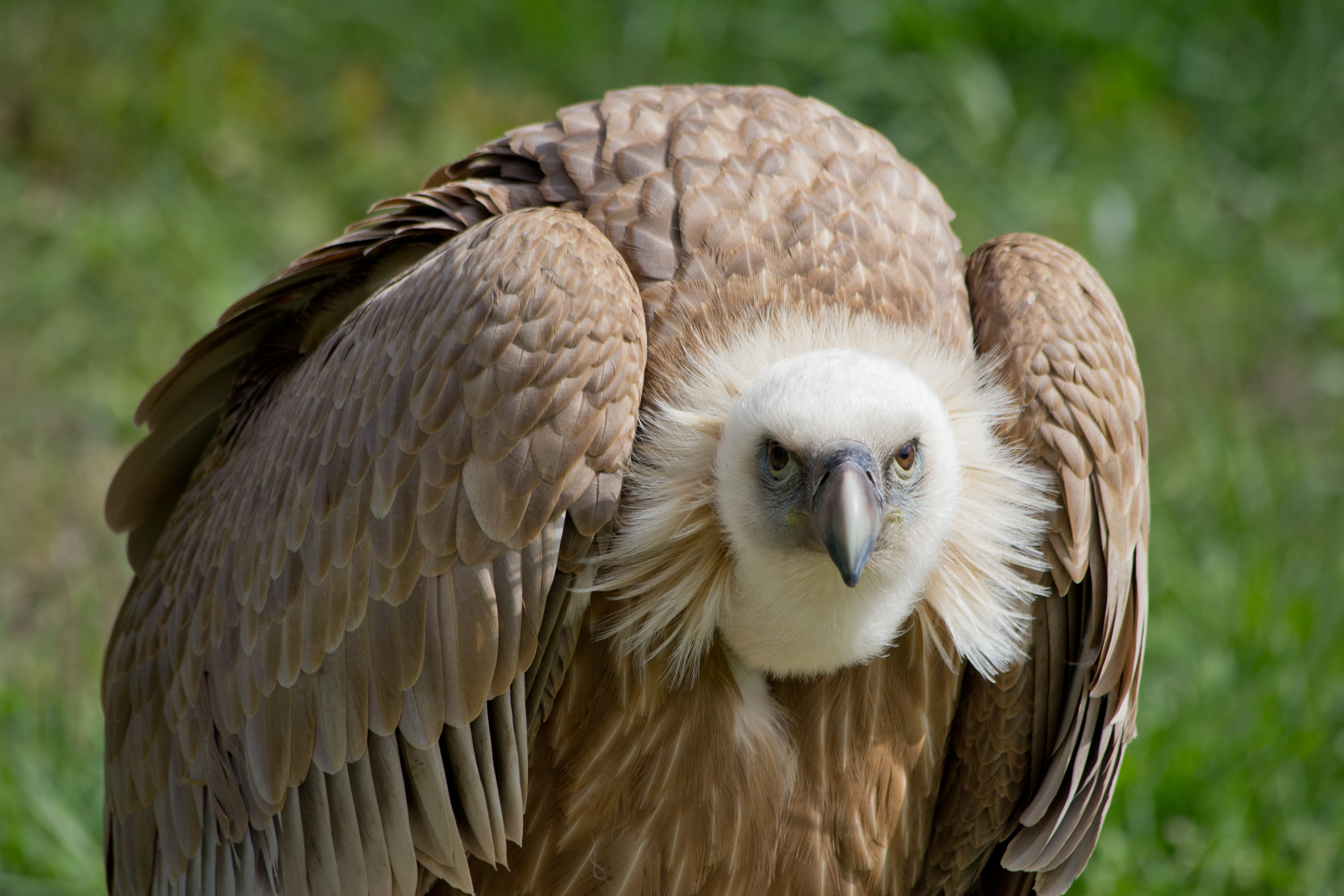 Griffon Vulture (Gyps fulvus) at the Zoo of Madrid, Spain.